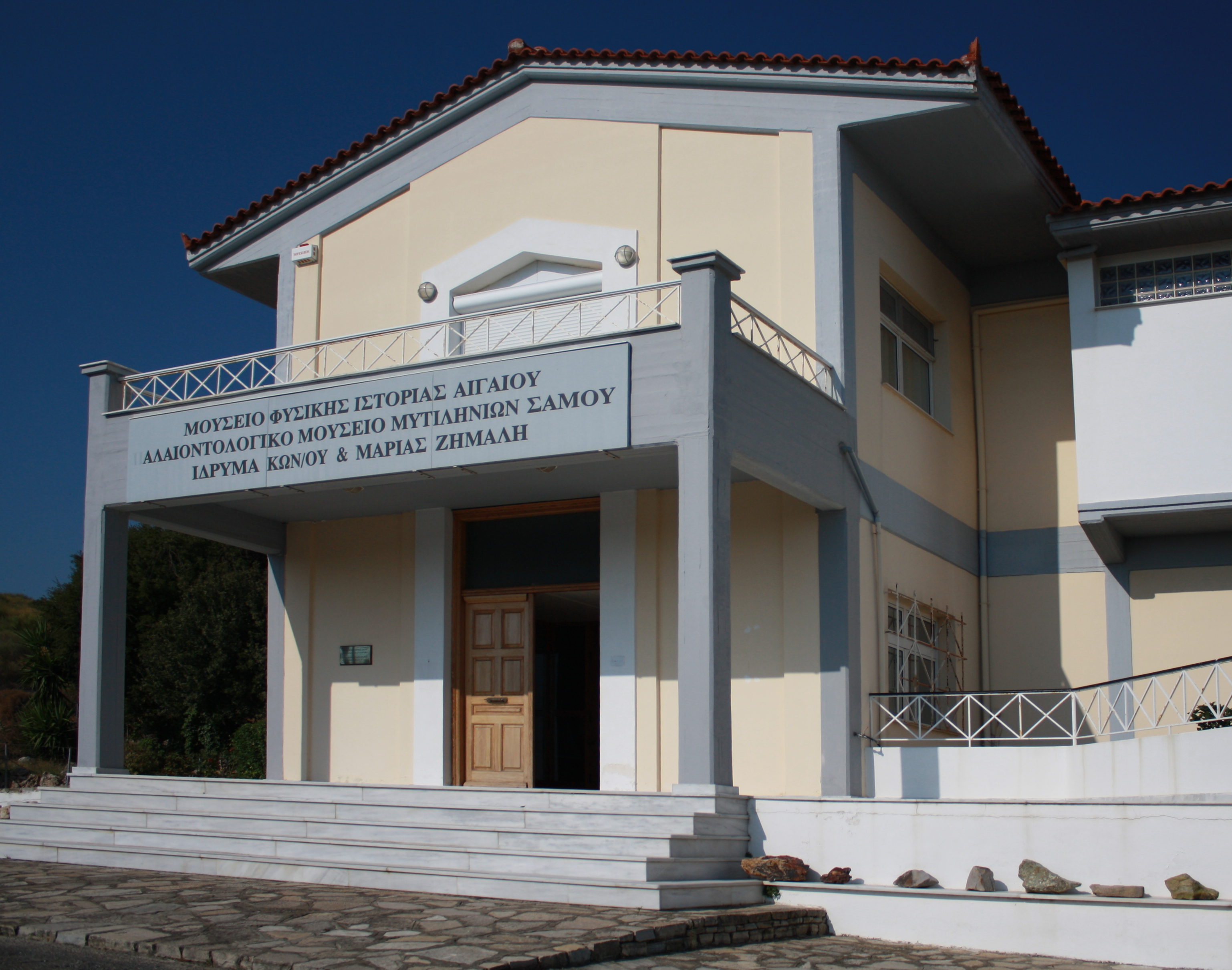 The Natural History Museum of the Aegean in Mytilinii, Samos, Greece